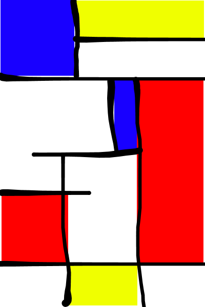 May 20th is Everybody Draw Mohammad Day.